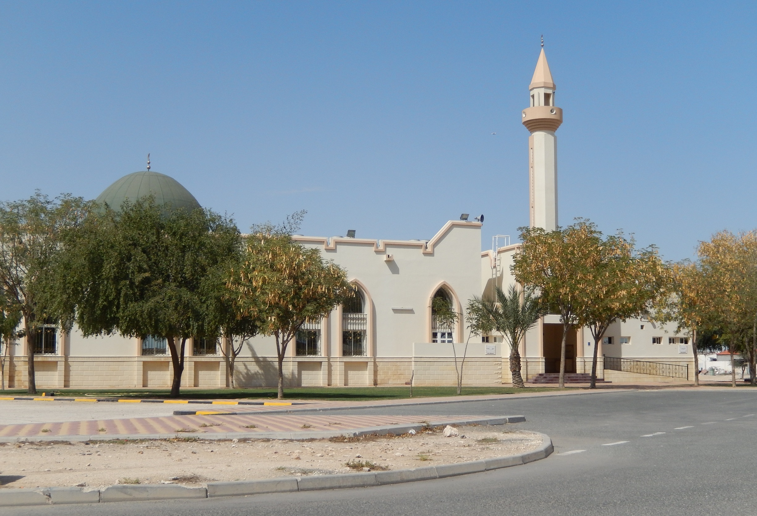 Mosque in Al Ghuwairiyah, a village in northern Qatar.